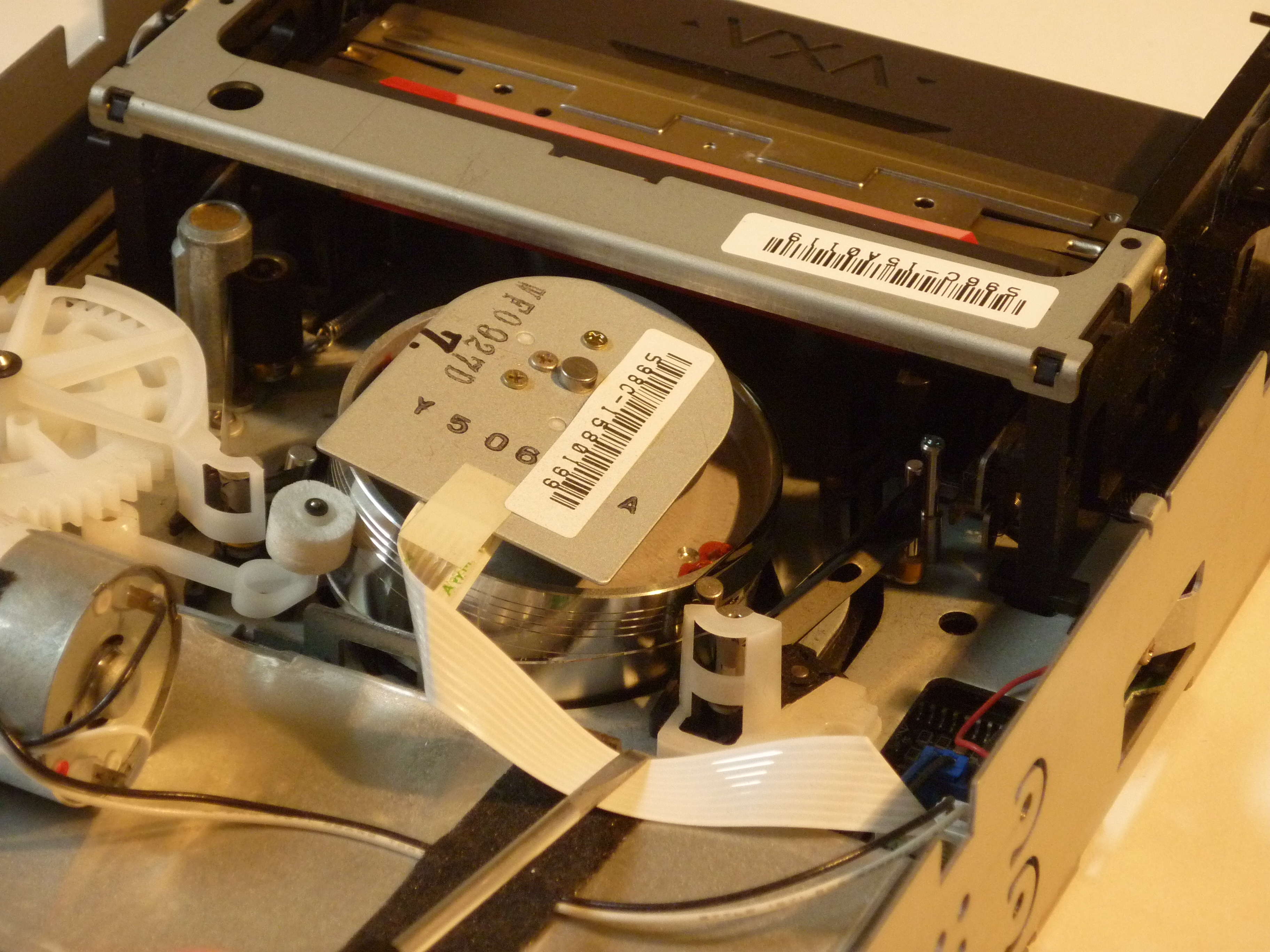 VXA-1 tape drive with tape loaded, view of tape path from left side